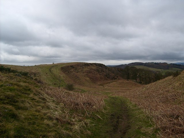 Line of Frontier Free world to the right, Roman colony of Britannia to the left.